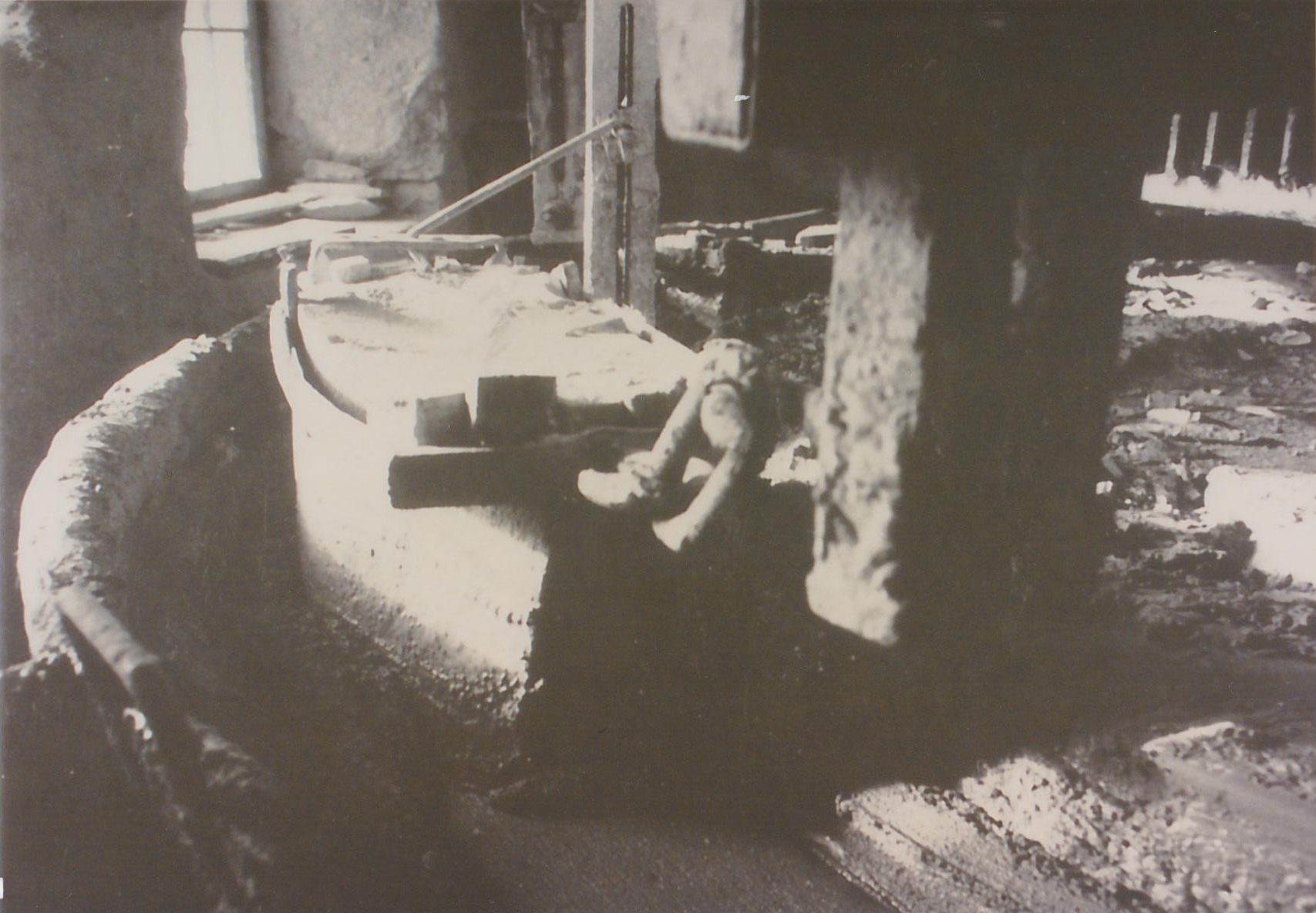 Whetstone-production in the Schwarzachtobel (in Schwarzach, Vorarlberg, Austria). Whetstone grinder from the Hefel company.